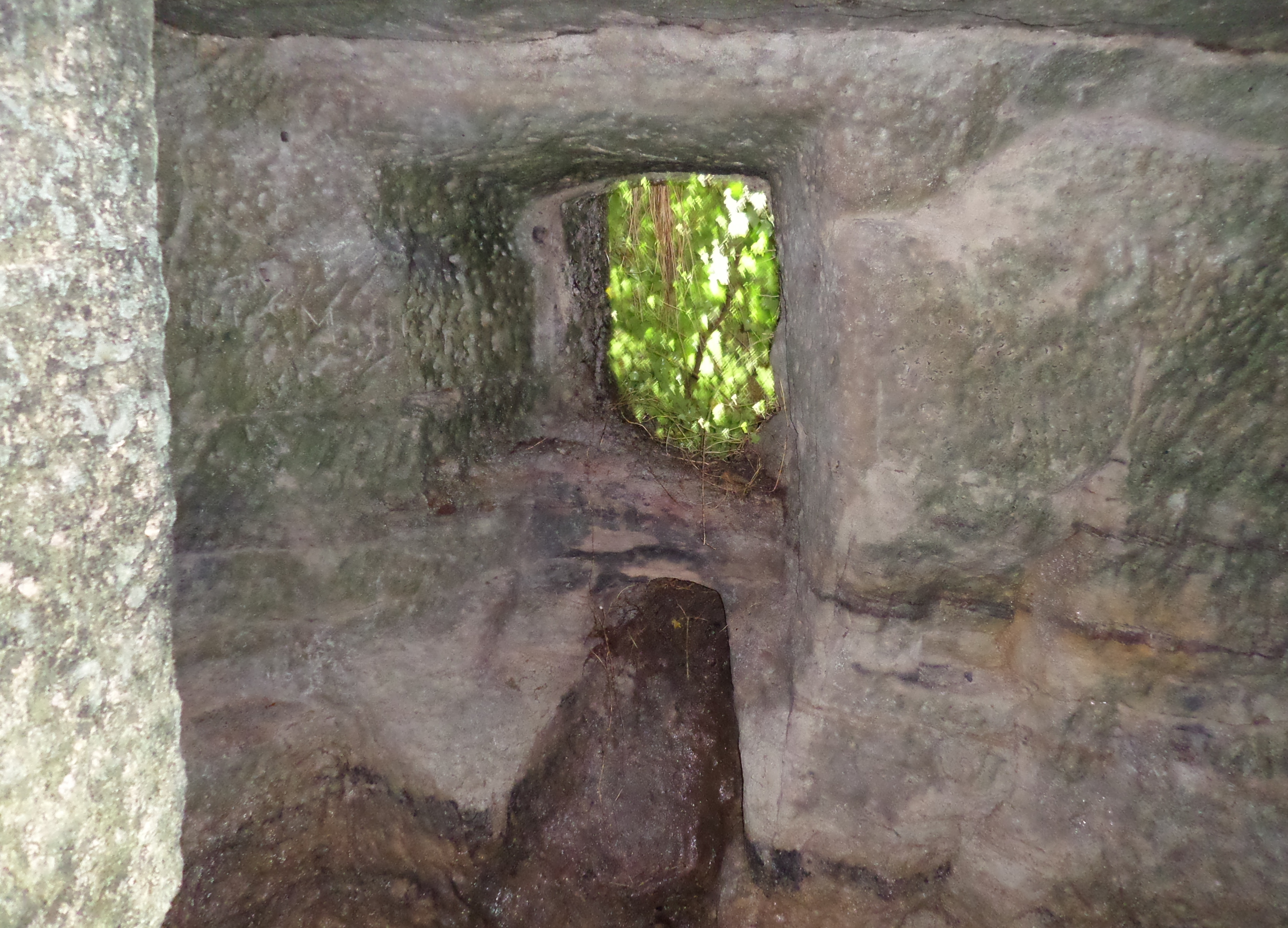 William Murdoch's Cave fireplace with flue & window, Bello Mill, Lugar, East Ayrshire, Scotland. Used for experiments on gas lighting.